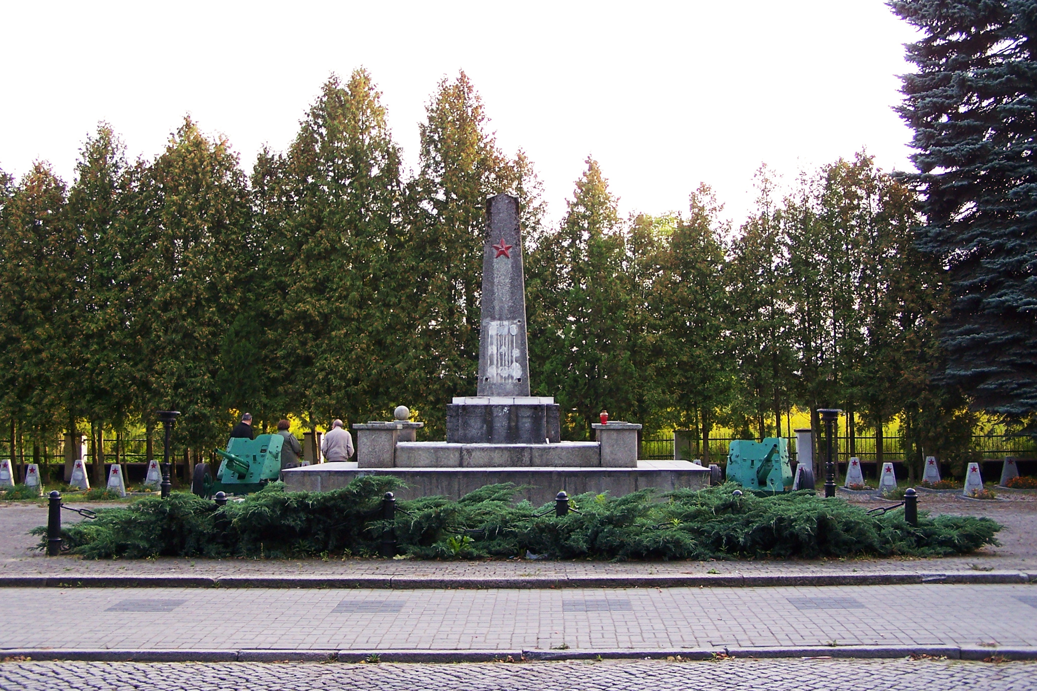 Soviet cemetery in Rzepin (Poland).